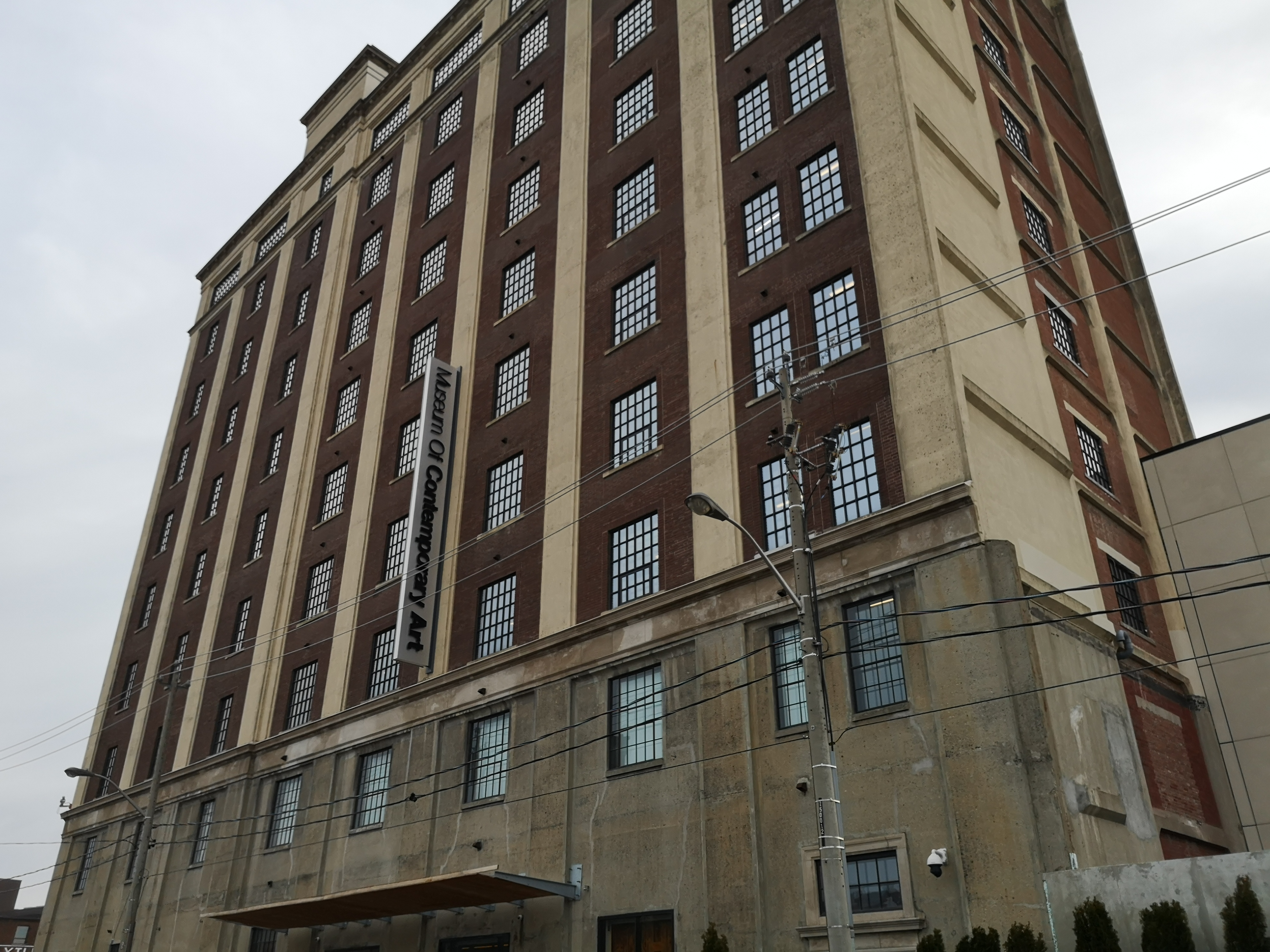 Tower Automotive Building at 158 Sterling Road in Junction Triangle, a neighbourhood of Toronto. The building was erected in 1919.